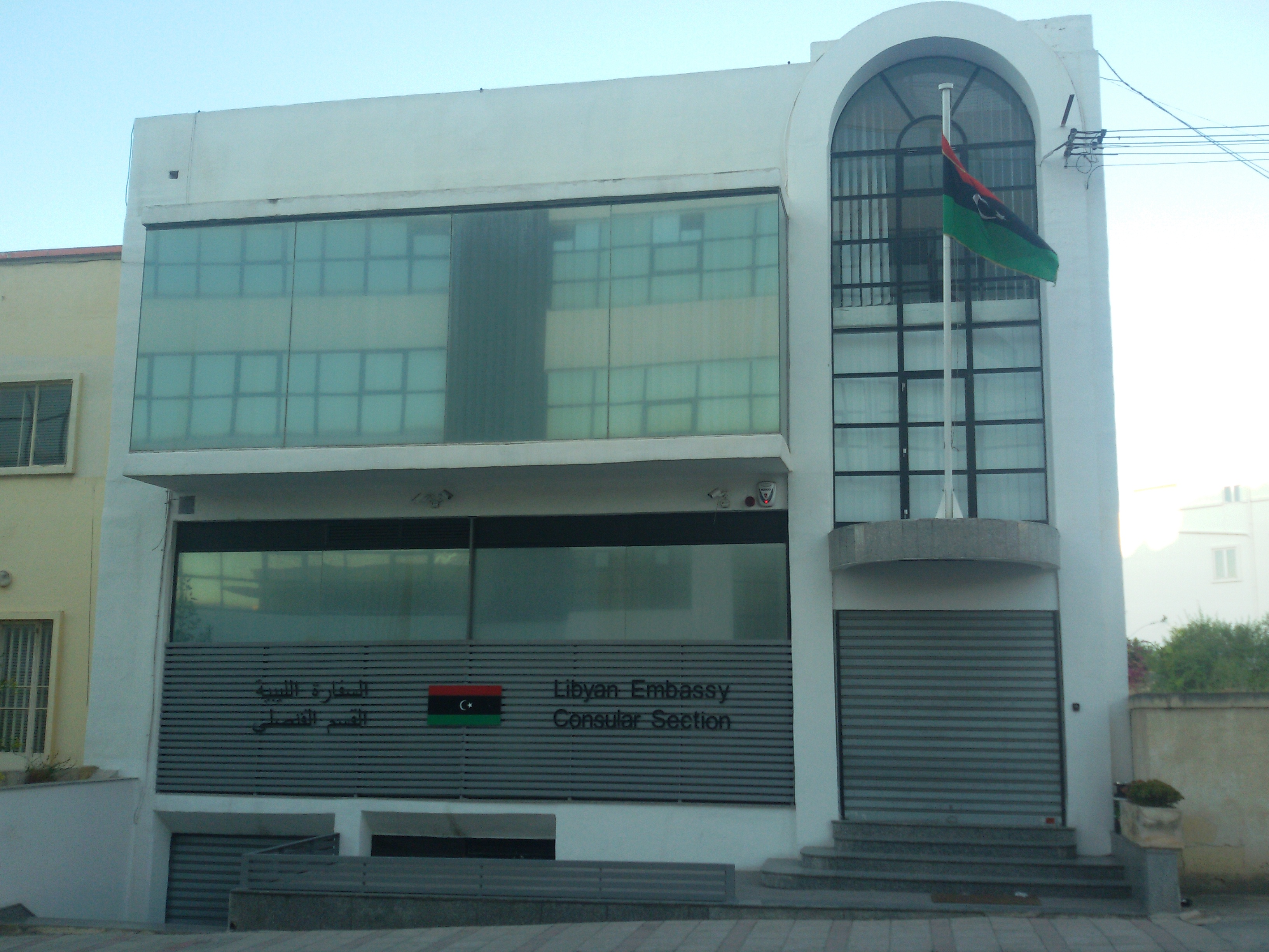 Ta' Xbiex